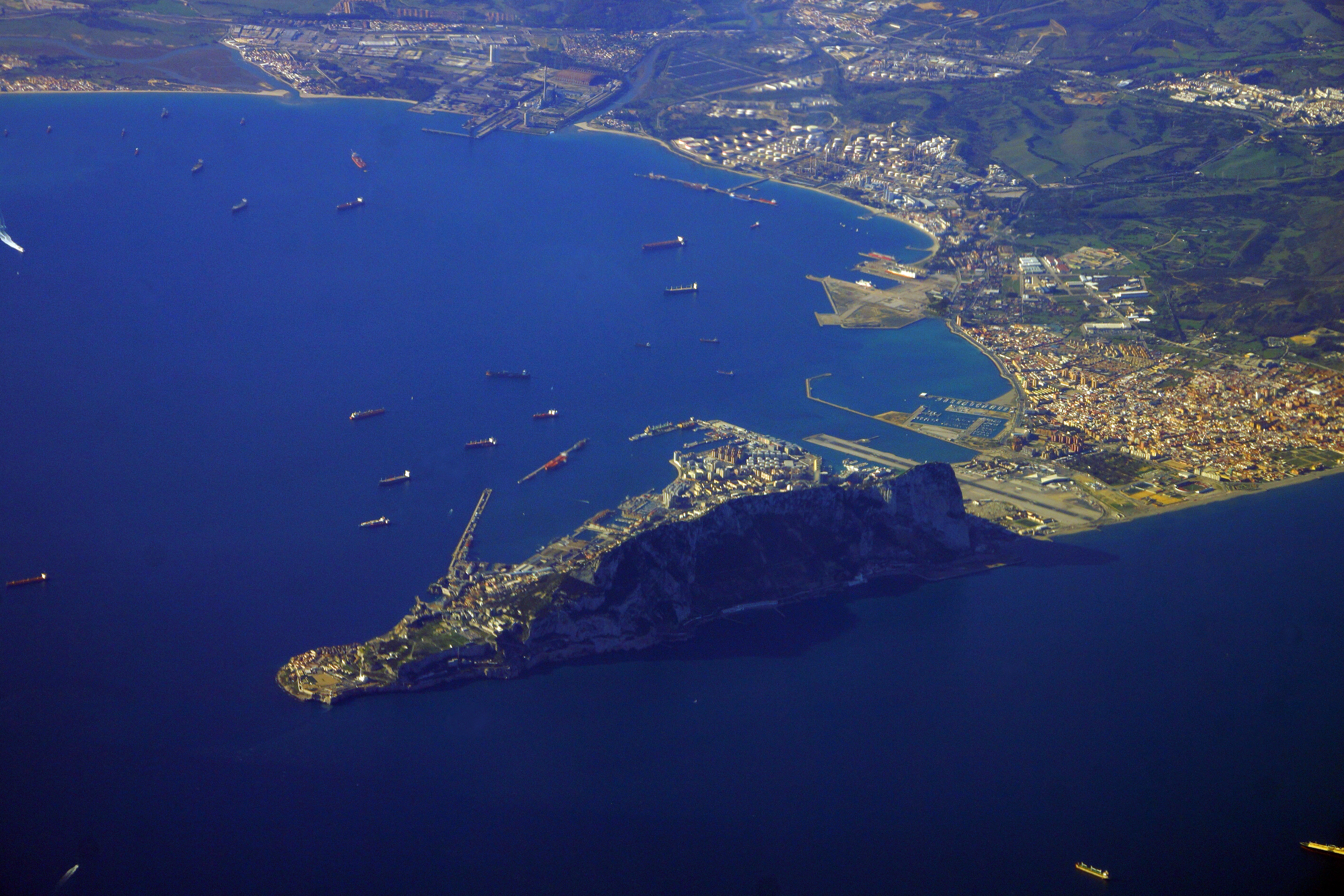 Gibraltar seen from the plane (Basel - Marrakech) at 30000 feet